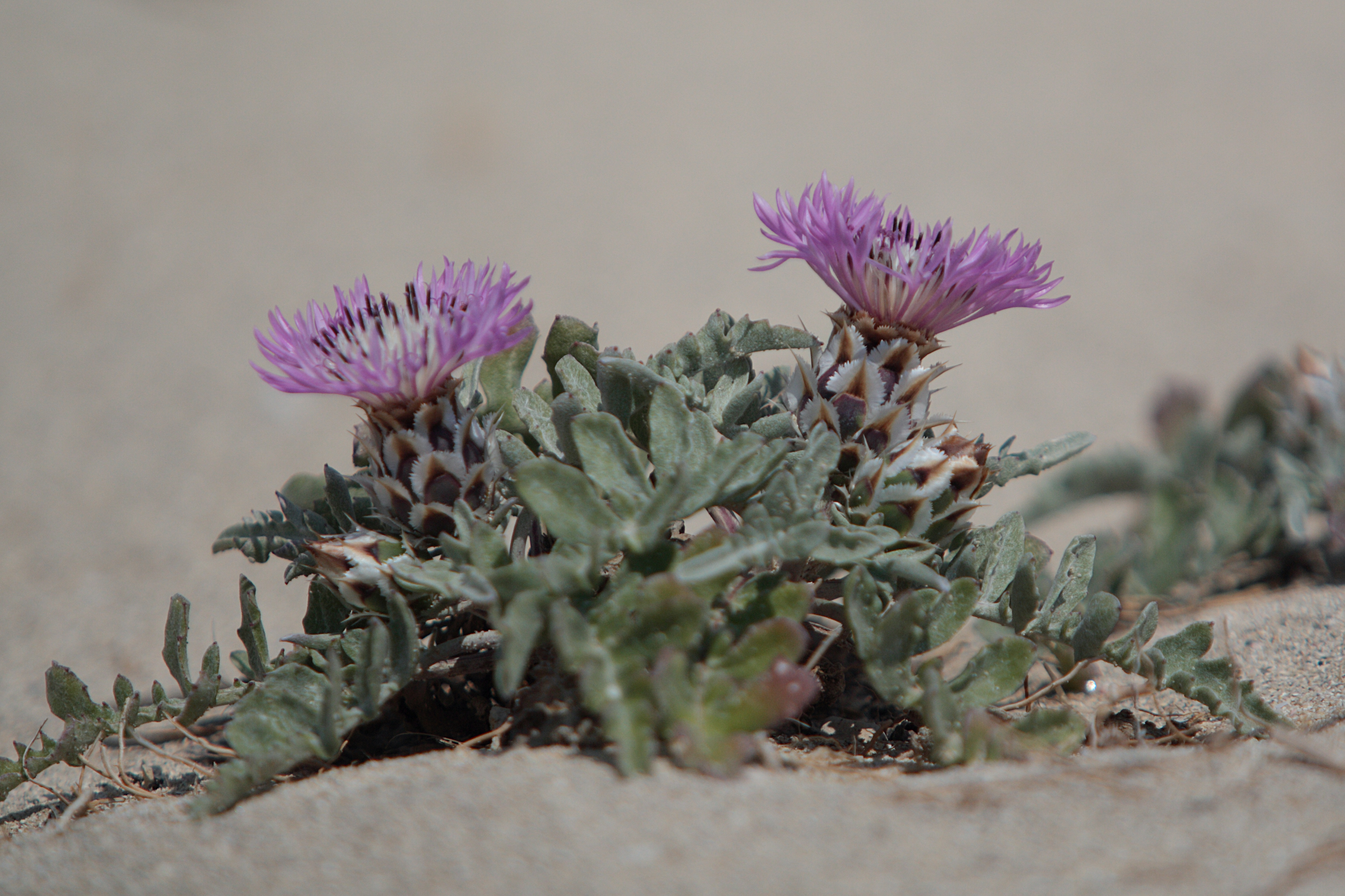 Centaurea pumilio - the beach of Elafonisos (Krete)